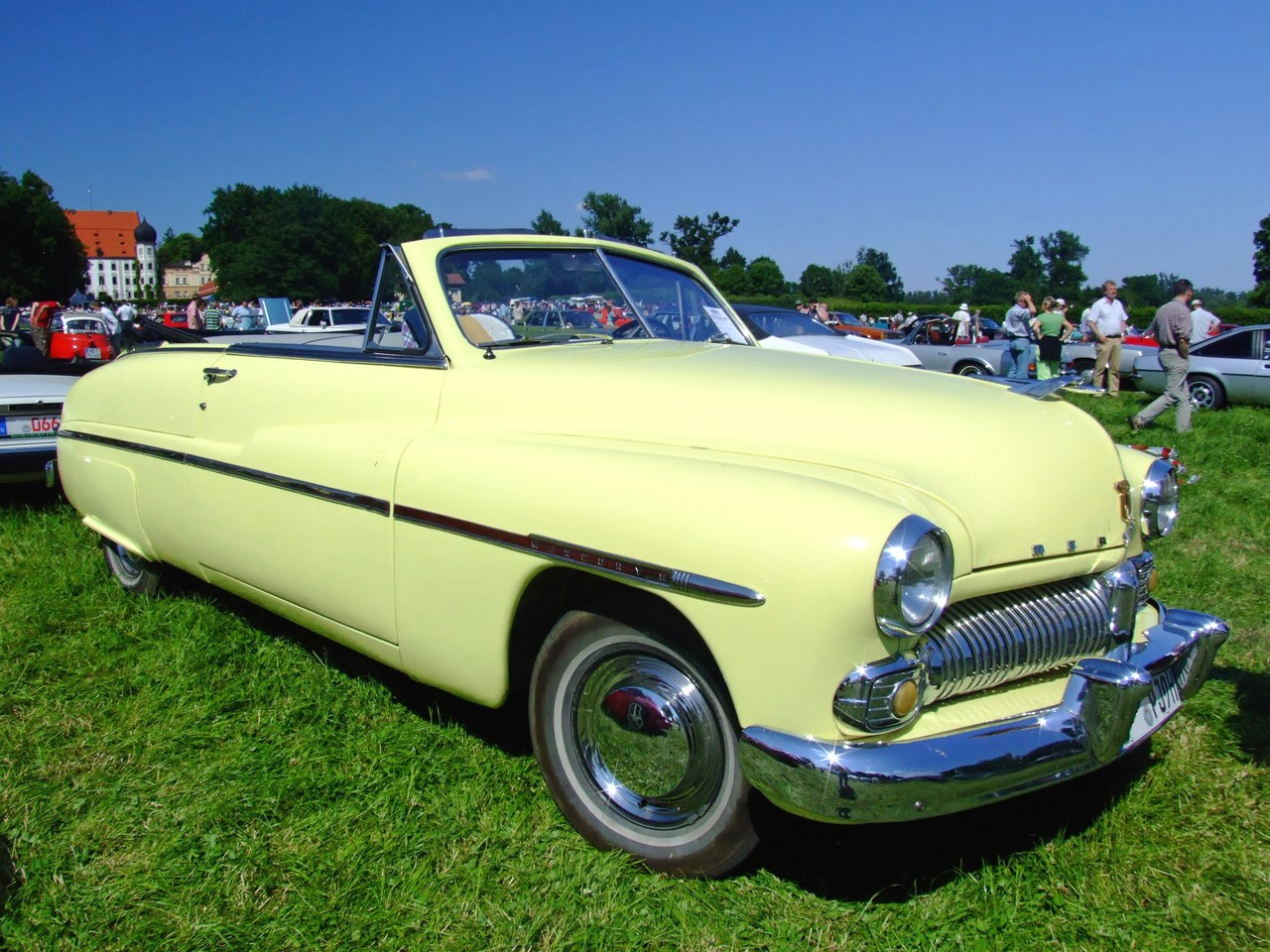 1950 Mercury at ADAC Bavaria Historic Maxlrain 2007